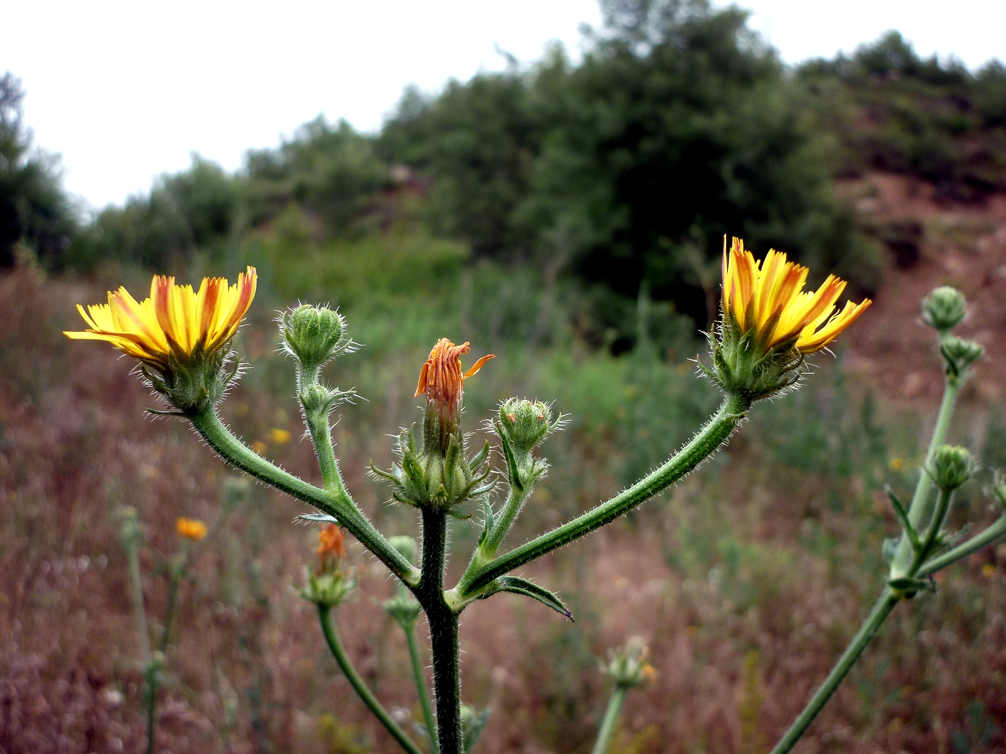 Picris hieracioides. In Torà (Segarra- Catalunya). On 575 m. altitude